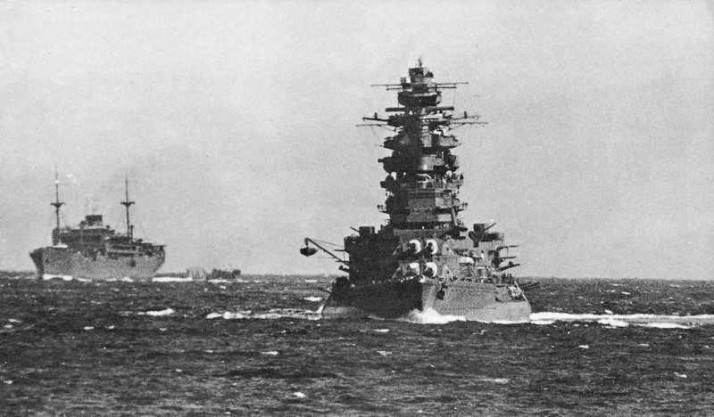 en: Japanese auxiliary submarine tender Yasukuni Maru and battleship HIJMS Nagato